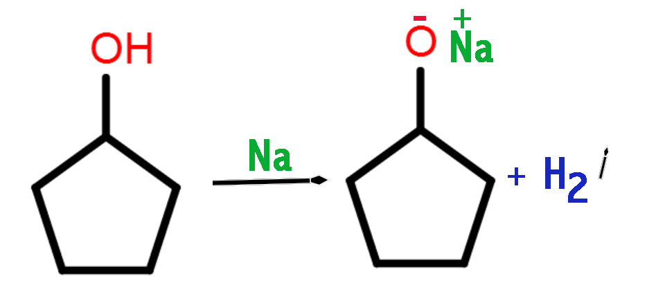 Sodium cyclopentoxide